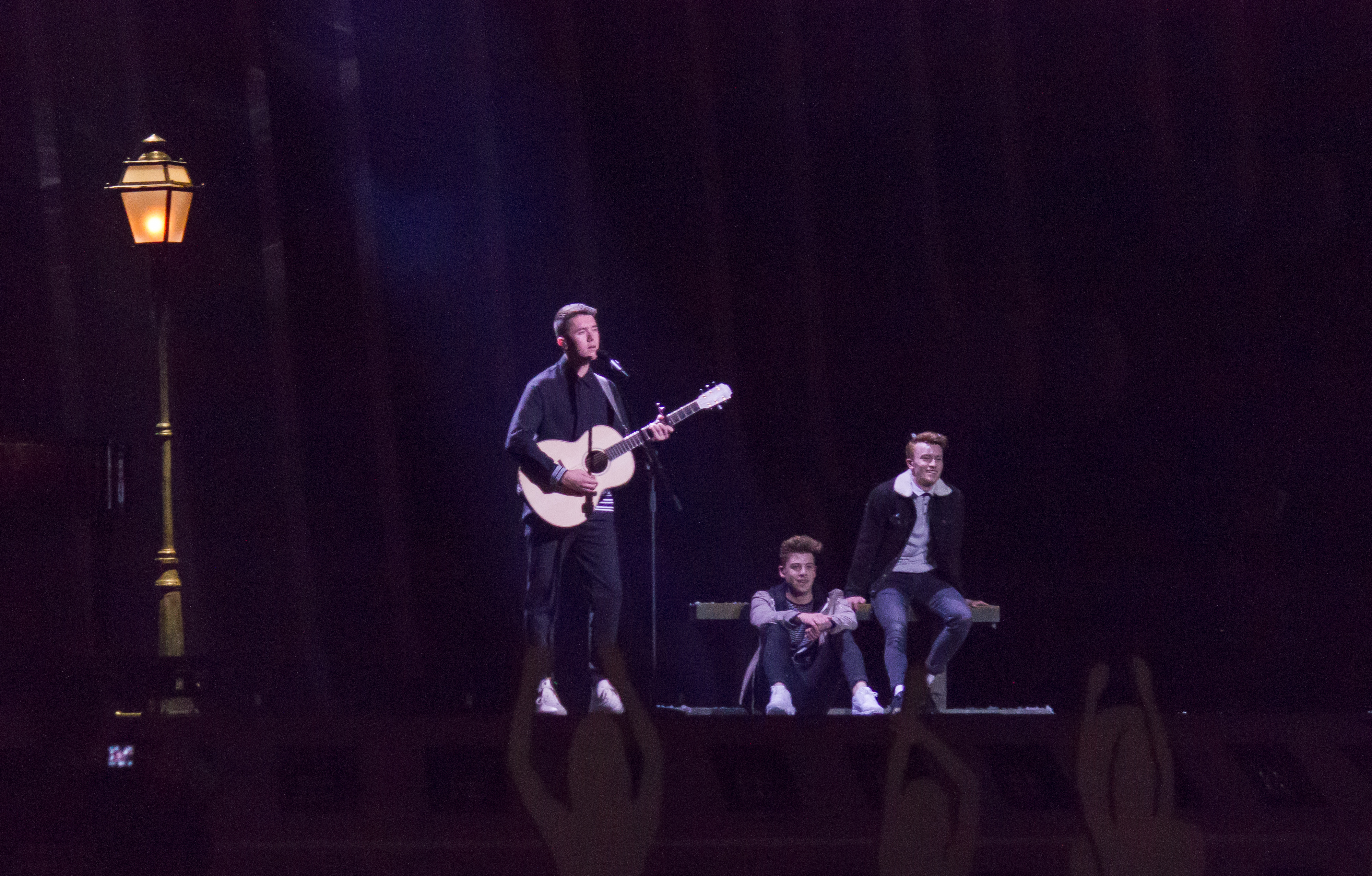 Ryan O’Shaughnessy performing at Eurovision 2018